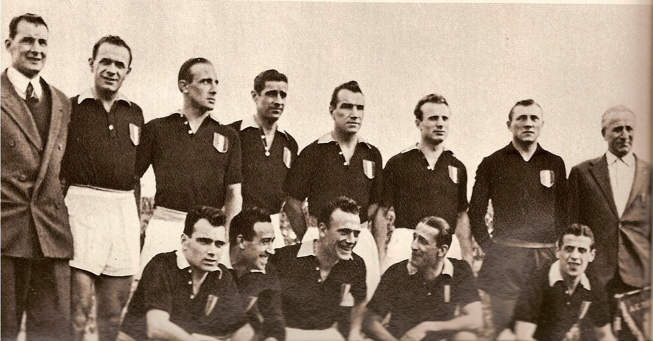 Scan of a photo of the Grande Torino.